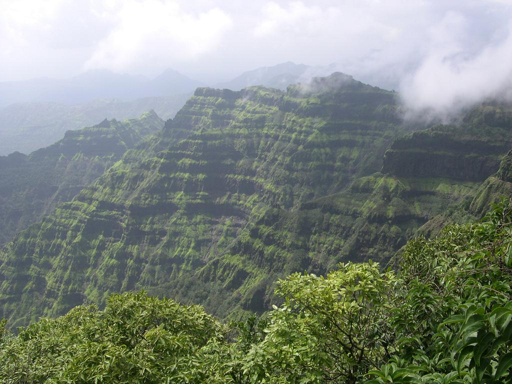 Mahabaleshwar Hills, Maharashtra